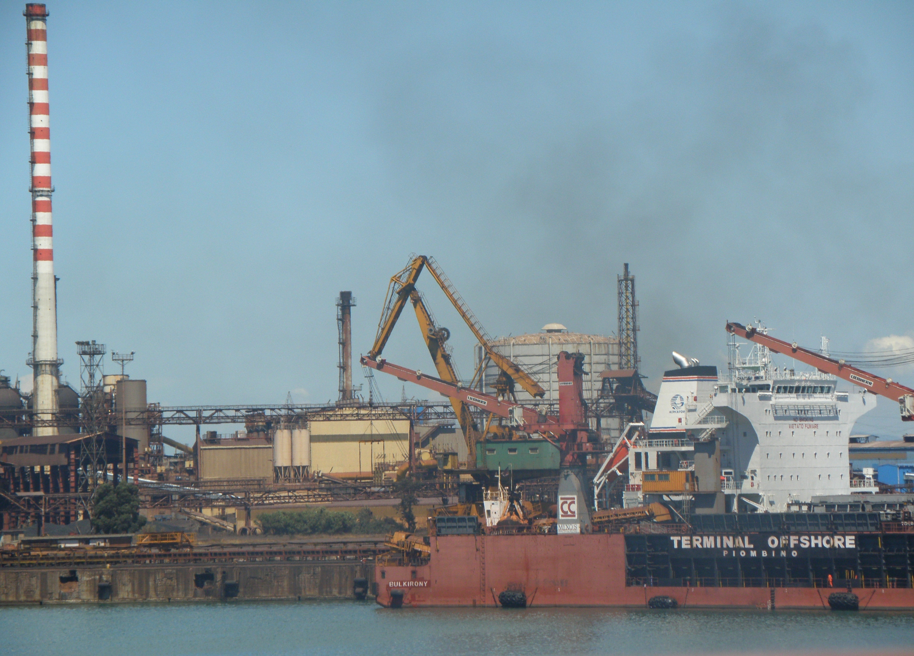 Piombino's industrial harbour, seen from the sea.